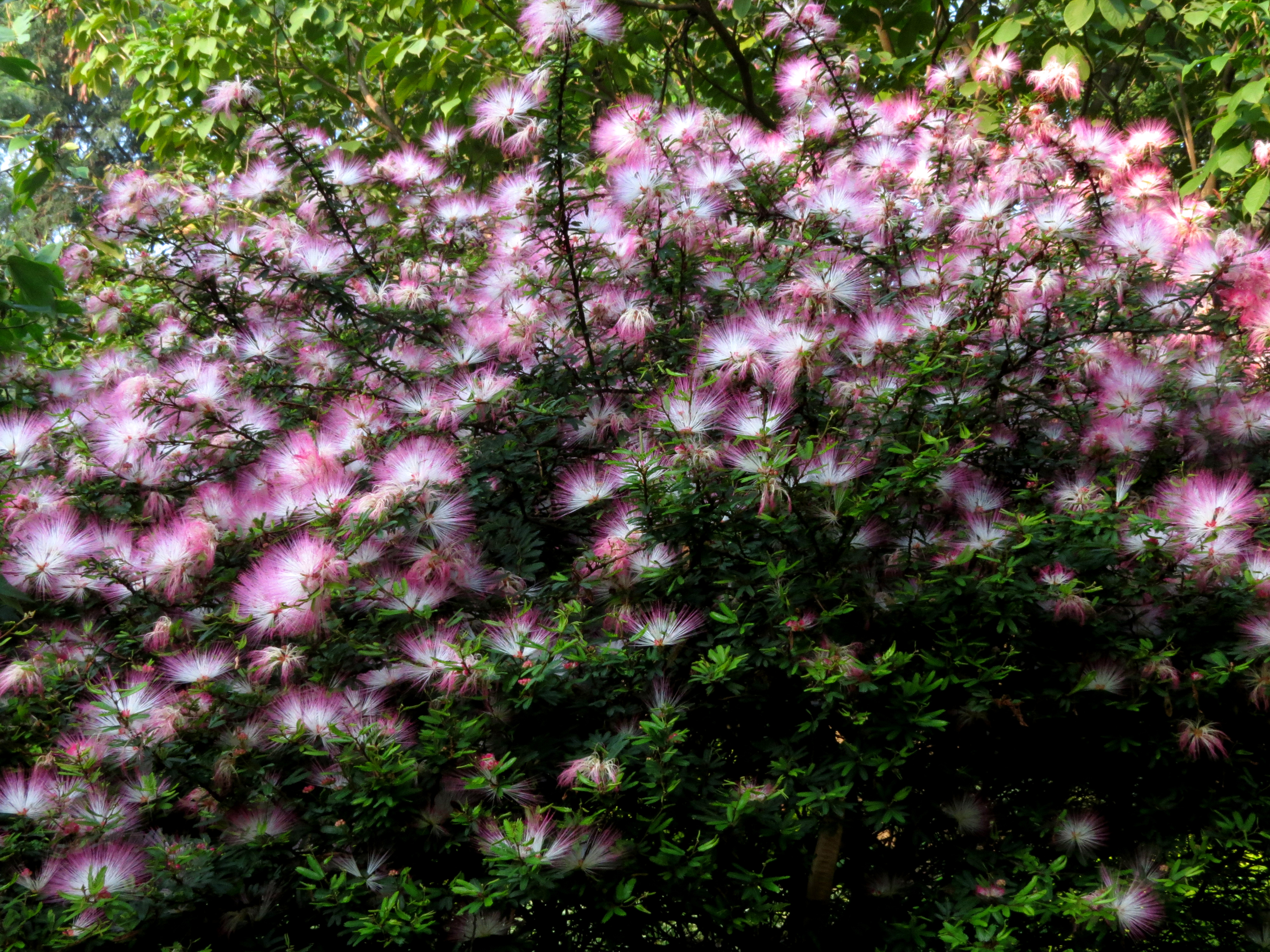 Calliandra brevipes or Pink Powder Puff plant seen in Hebbal lake in Bangalore. It has a nice and mild pleasent smell.